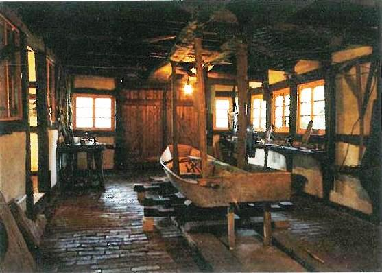 Torfschiffswerft Schlussdorf: An Entenjäger (a type of passenger boat) inside the shipyard hall, early 1990s